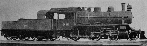 Builder's photo of Huning Railway locomotive number 401.